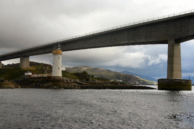 Kyleakin lighthouse and the Skye Bridge. The lighthouse was built by David and Thomas Stevenson in 1857; the bridge was completed in 1995.